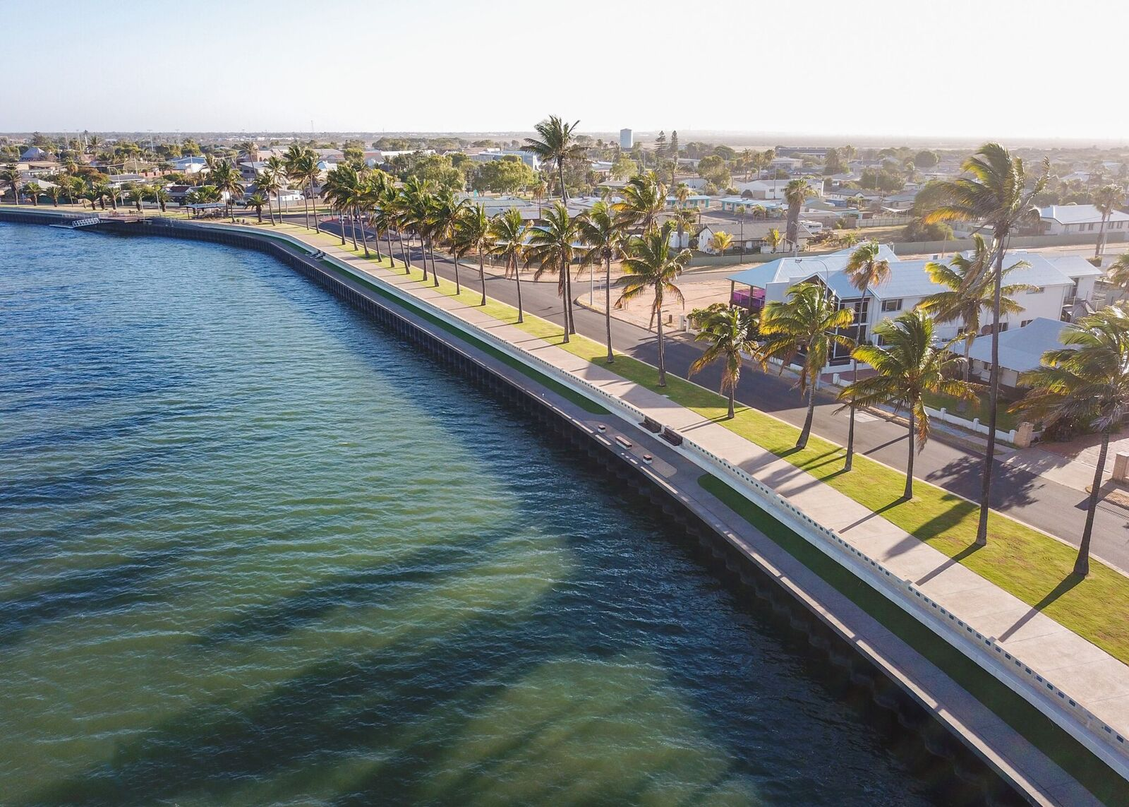 The Carnarvon Fascine boardwalk. - Photo by Wanderfully Lost